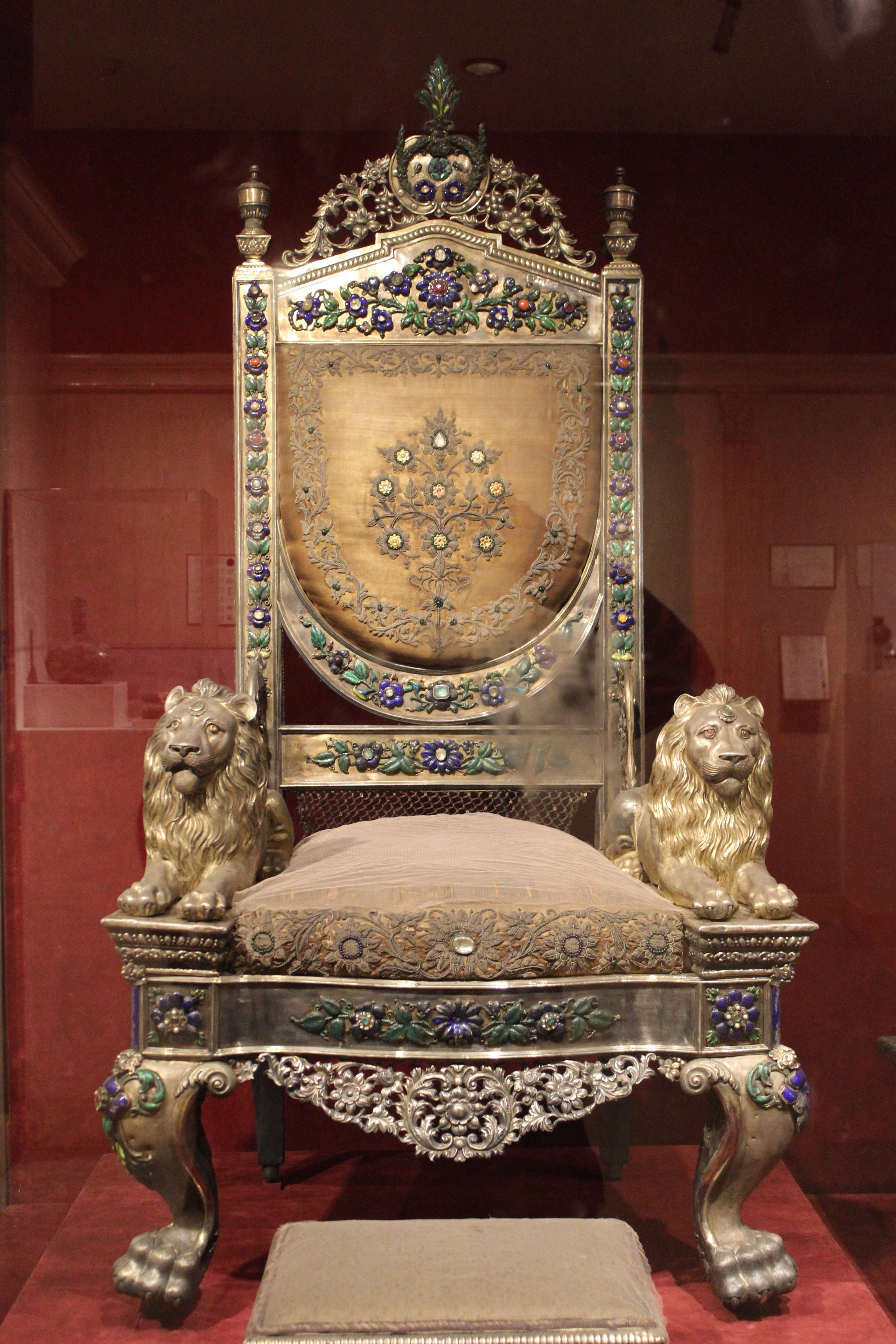 Jewel-studded throne and foot rest of the king of Benares. Northern India, late 19th century. Material: wood, silver, precious stones, velvet, carved, enameled, repoussé work. Lt. 85; Wd. 67; Ht. 173 cm. National Museum, New Delhi. Acc. no.: 89.1042/1-2.